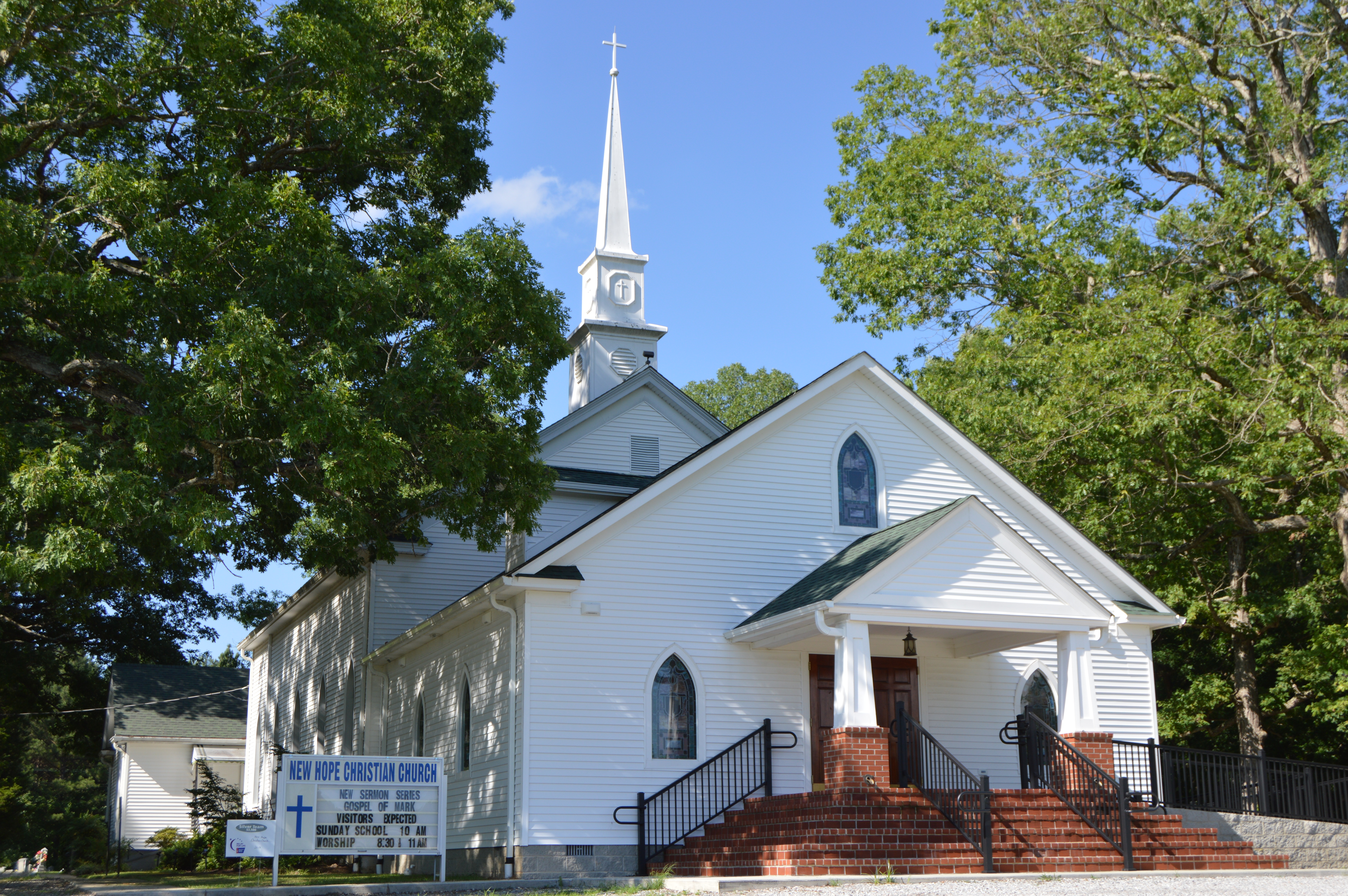 Front and western side of New Hope Christian Church, located at 742 New Hope Road at Danieltown in Brunswick County, Virginia, United States.